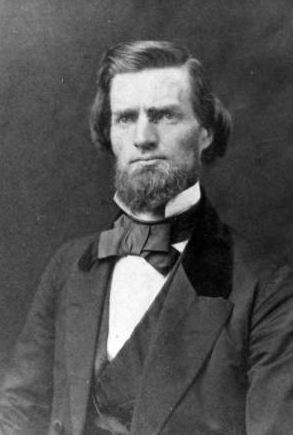 1875 Portrait of Reverend Laurentine Hamilton